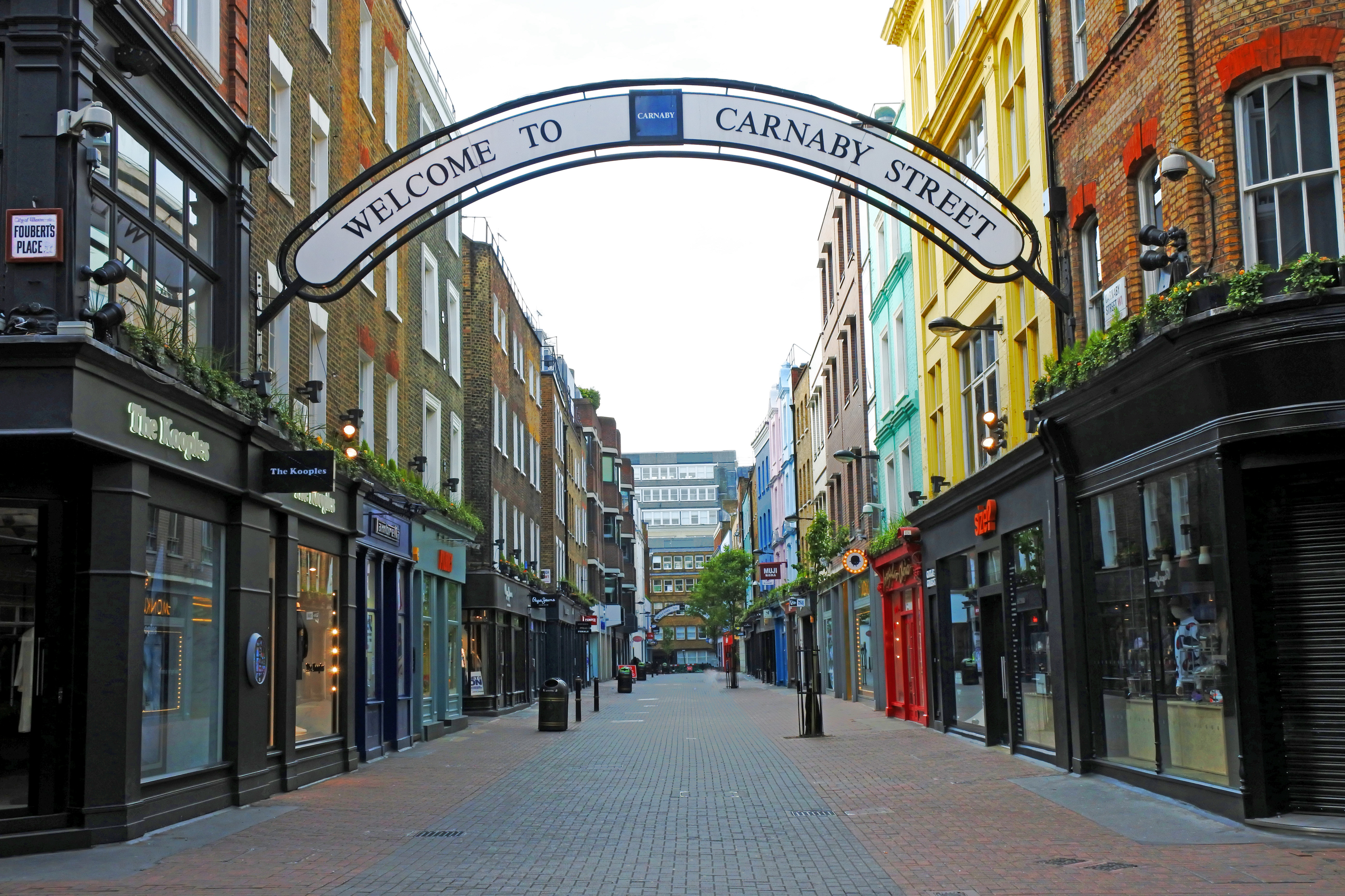 Taken quite early on a Sunday morning, so unusually deserted.